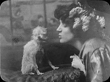 Title Portrait photograph of Mrs. Patrick Campbell Contributor Names Genthe, Arnold, 1869-1942, photographer Created / Published between 1896 and 1942; from a negative taken between 1896 and 1942. Subject Headings - Campbell, Patrick,--Mrs.,--1865-1940. Format Headings Lantern slides. Portrait photographs. Notes - Title devised. - Purchase; Genthe Estate; 1942 or 1943. - ID: As I remember, facing p. 107 Medium 1 slide : lantern ; 4 x 5 in. or smaller. Call Number/Physical Location LC-G4085- 0421 [P&P]